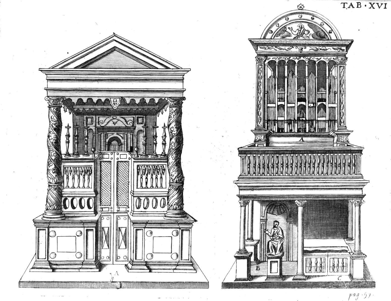 Engravings of (old) Saint Peter's Basilica in Rome.